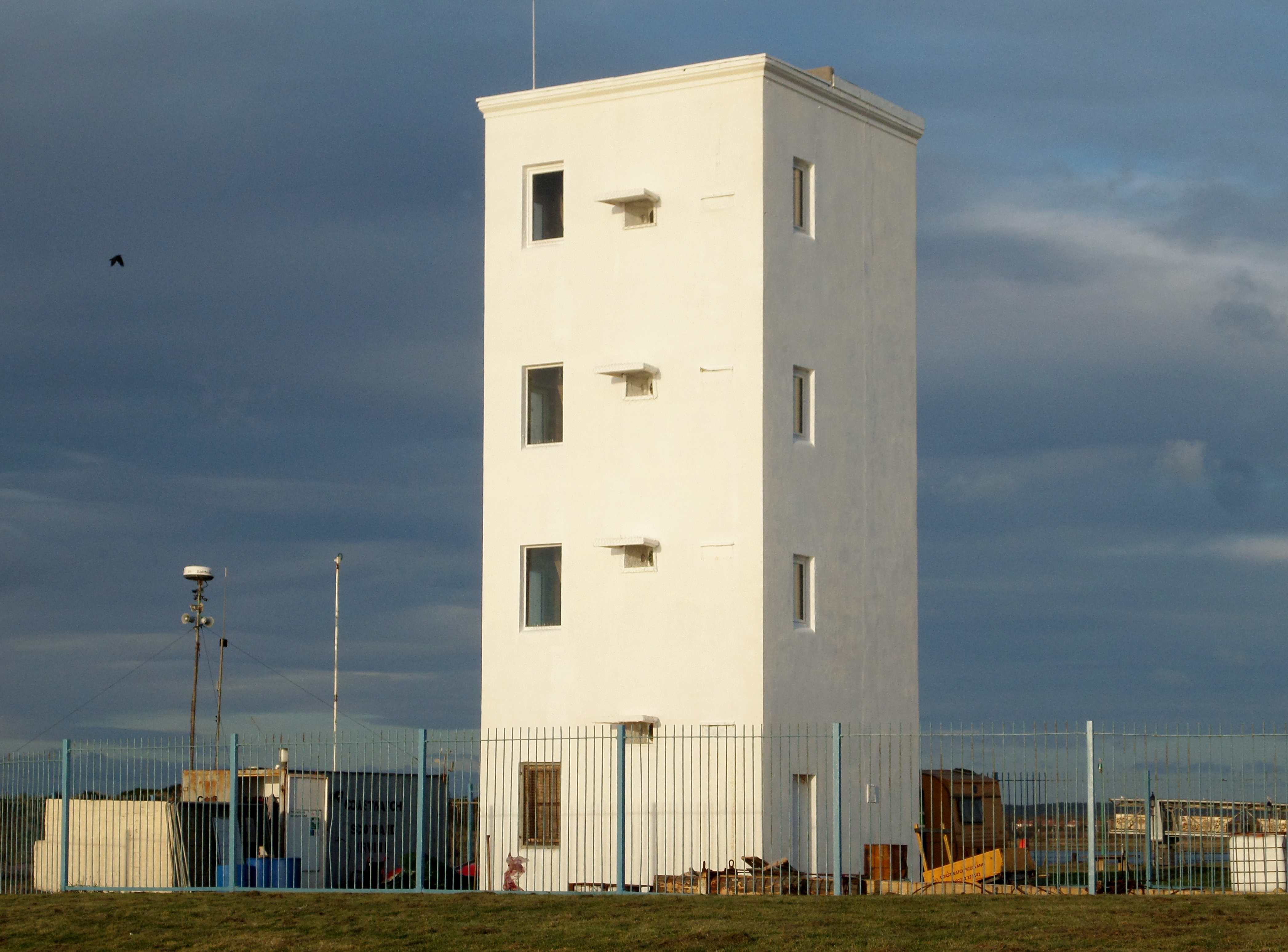 Pilot House / Boyd's Automatic Tide Indicator Apparatus - Restored in 2016 as a Coastwatch UK base.